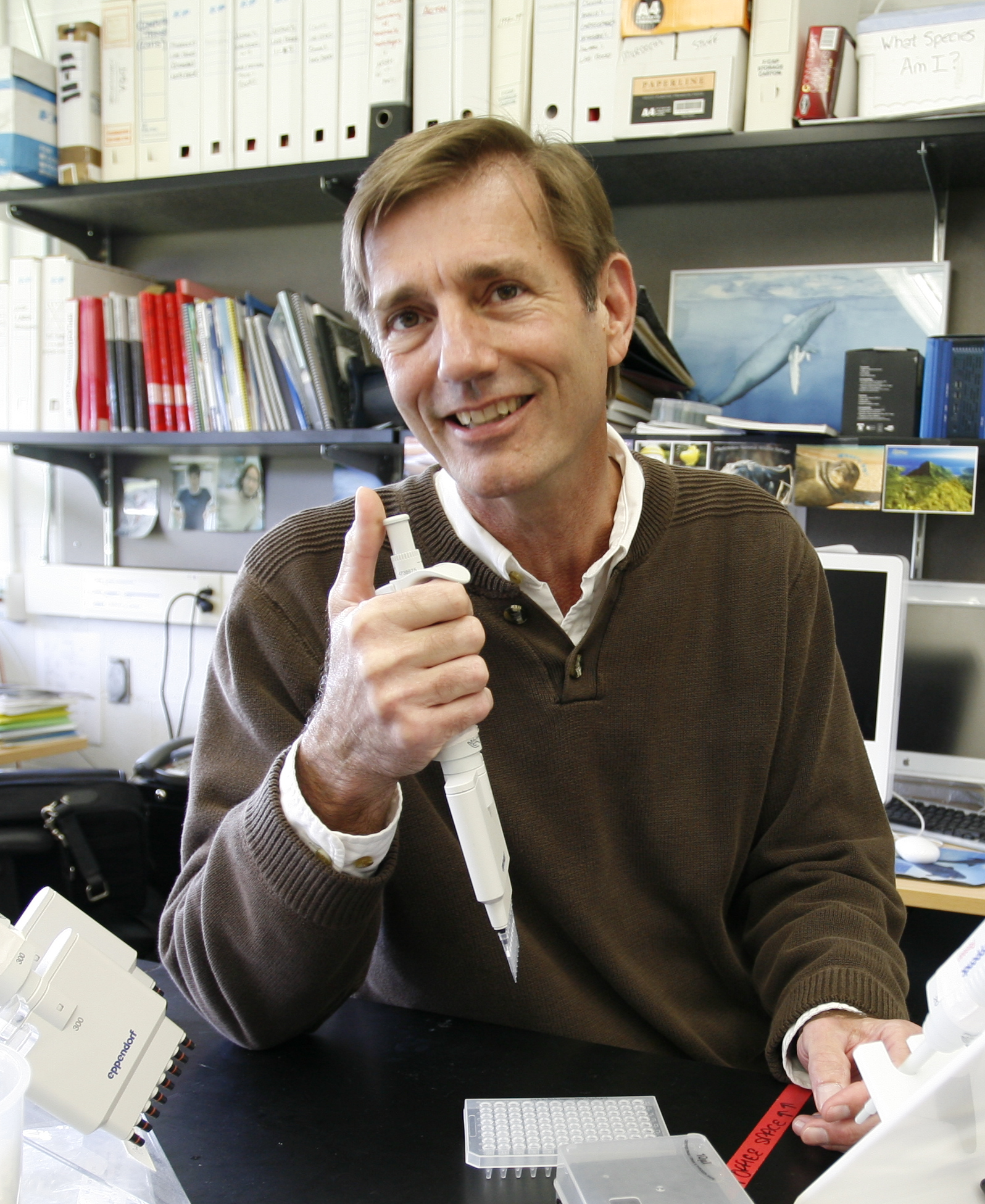 Scott Baker, associate director of the Marine Mammal Institute at Oregon State University. Photo by Don Frank